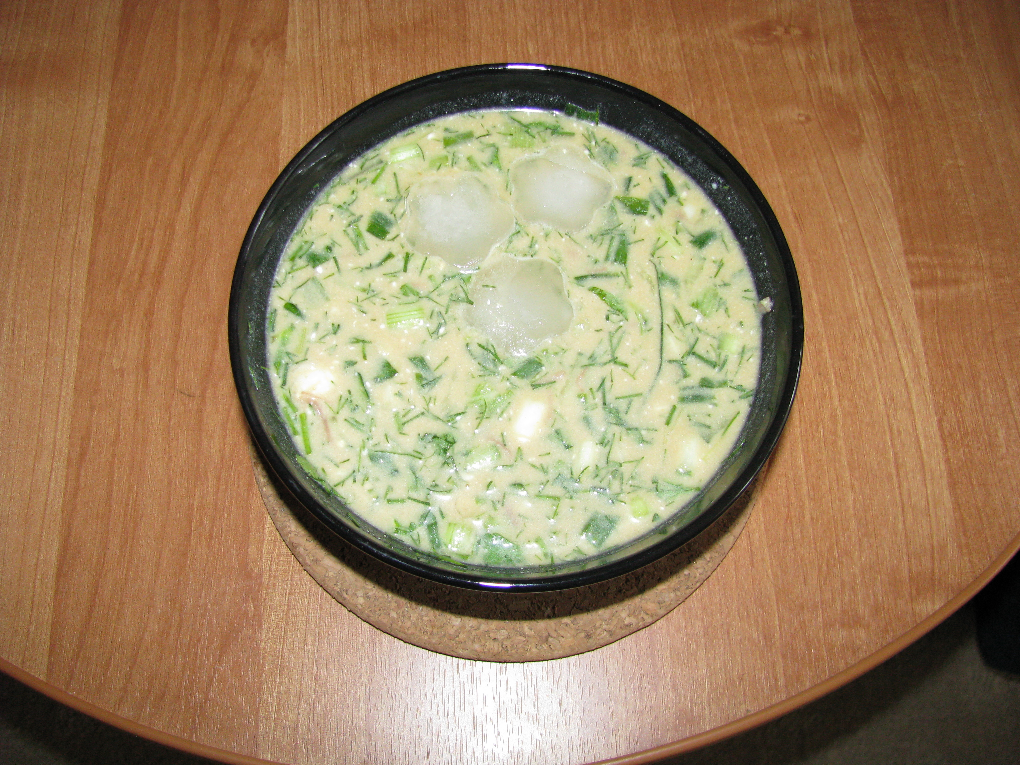 Okroshka5